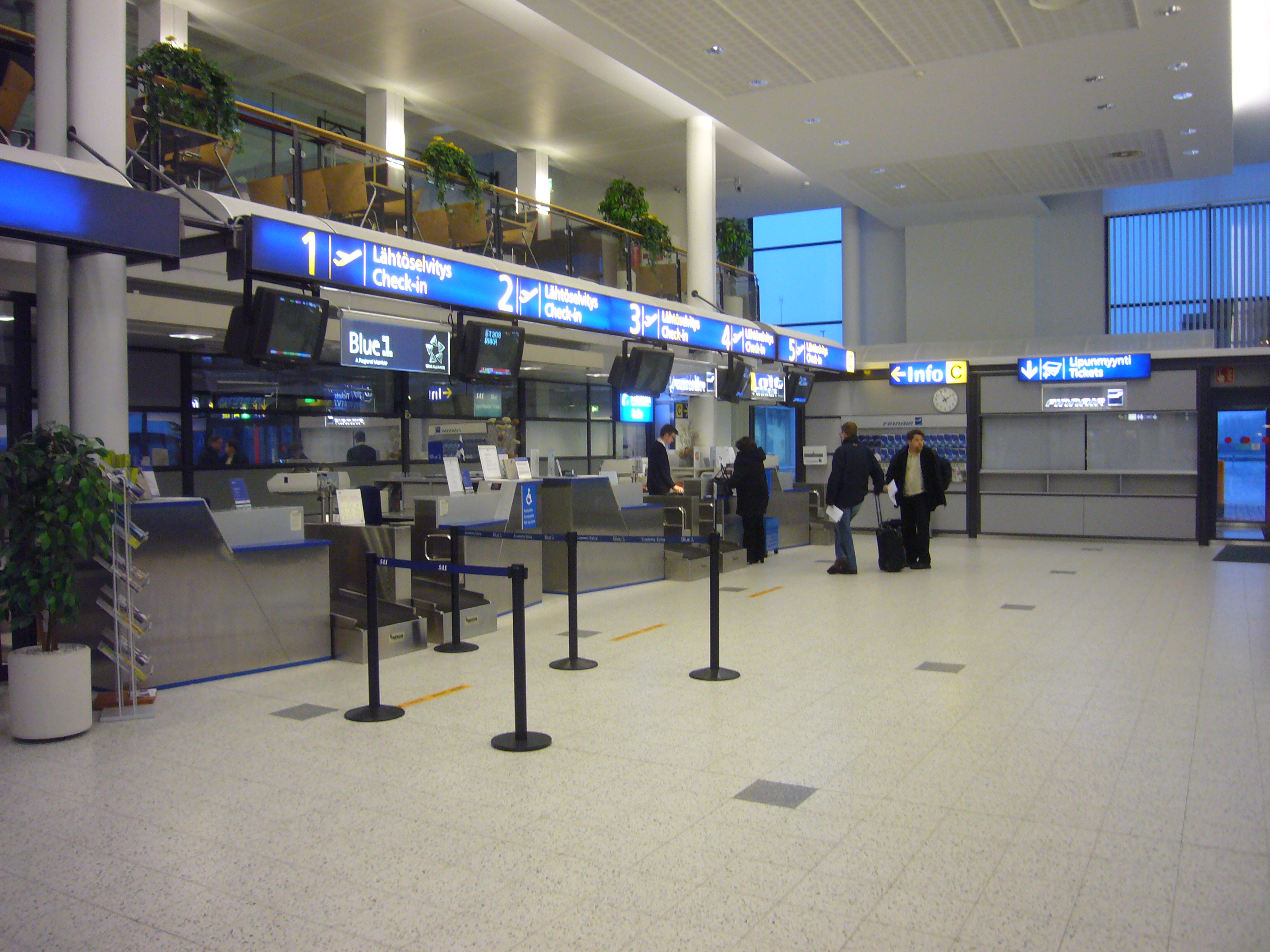 Check-in at Kuopio Airport (KUO/EFKU) in Siilinjärvi, Finland